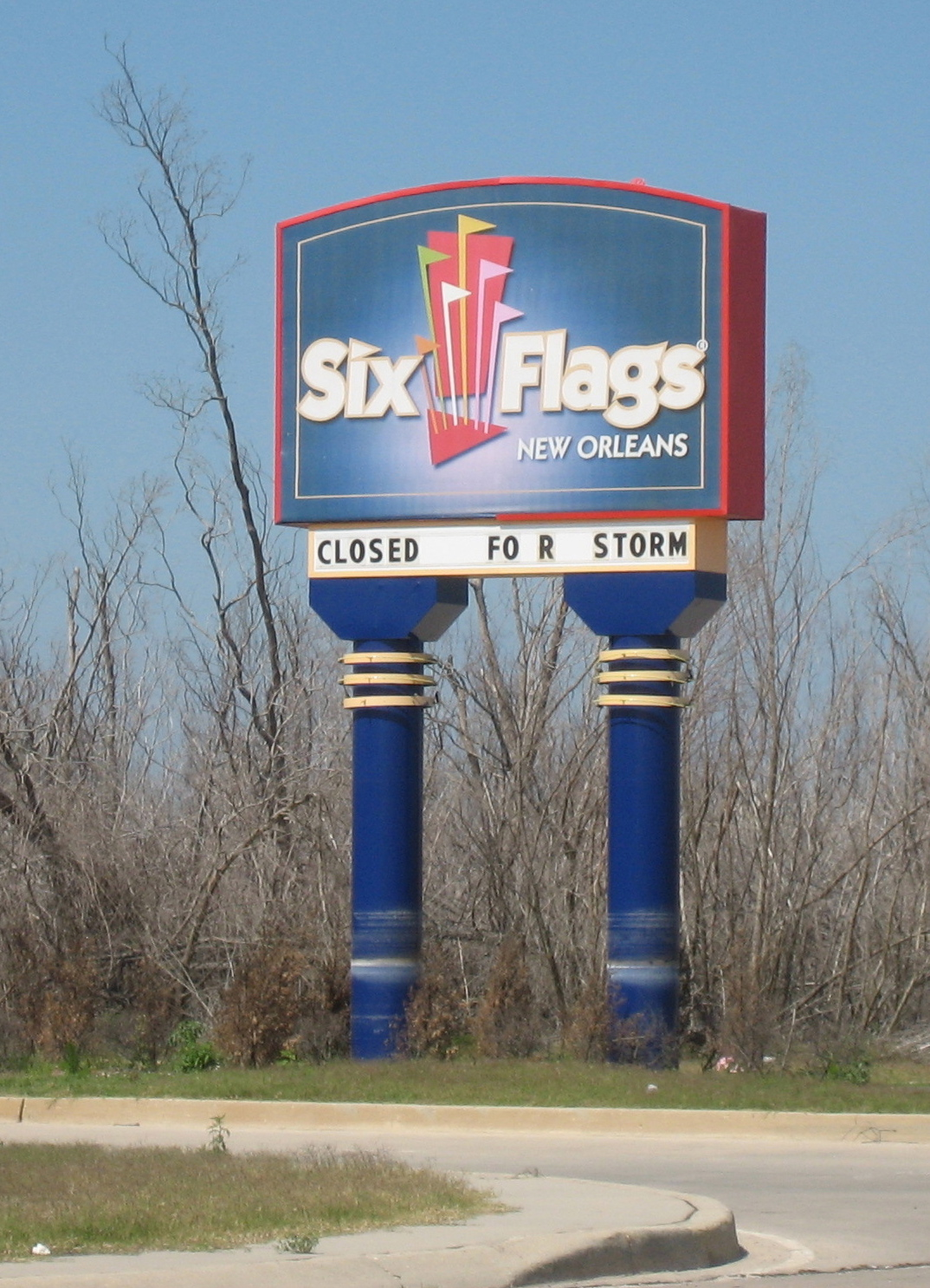 New Orleans after Hurricane Katrina: Formerly flooded portion of Eastern New Orleans. Sign by entrance to Six Flags amusement park still has lettering about being closed for storm over half a year later. Note lines from long standing floodwaters on pillars of sign. Photo by Infrogmation, April 2006